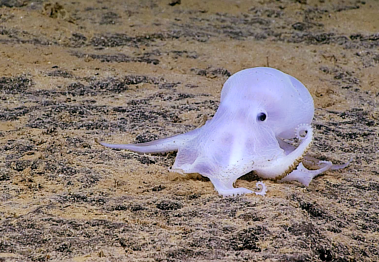 Casper the friendly octopod -- a potential new species of octopod discovered during the first Okeanos dive in Papahānaumokuākea Marine National Monument during March of 2016! The NOAA Office of Ocean Exploration and Research team found this friendly looking octopod at a depth of more than 2.5 miles on the northeast side of Necker Island, its pale and ghostly figure resembling the cartoon ghost Casper in the deep. Unlike most described species of octopods, this one is equipped with only a single row of suckers down each arm, in contrast to the two rows most octopods have. Even more intriguing is that most deep sea octopods possess fins that help them navigate in the depths, but it seems that this one does not! Image courtesy of NOAA Office of Ocean Exploration and Research, Hohonu Moana 2016